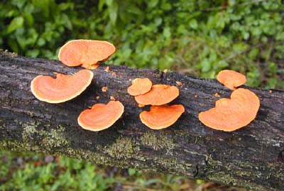 Bracket fungus (Pycnoporus sp.) photographed on O'ashu in Hawai'i by Eric Guinther and released under the GNU Free Documentation License.